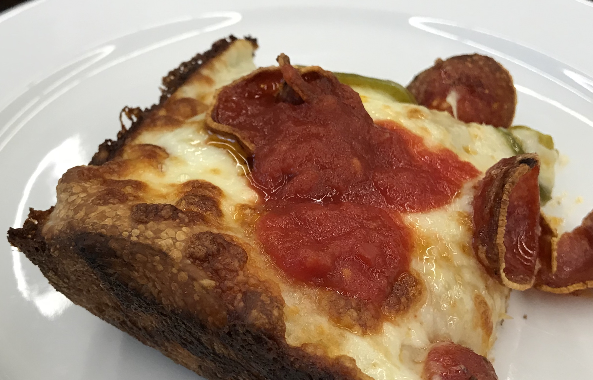 Detroit-style pizza showing typica lacy cheese crust